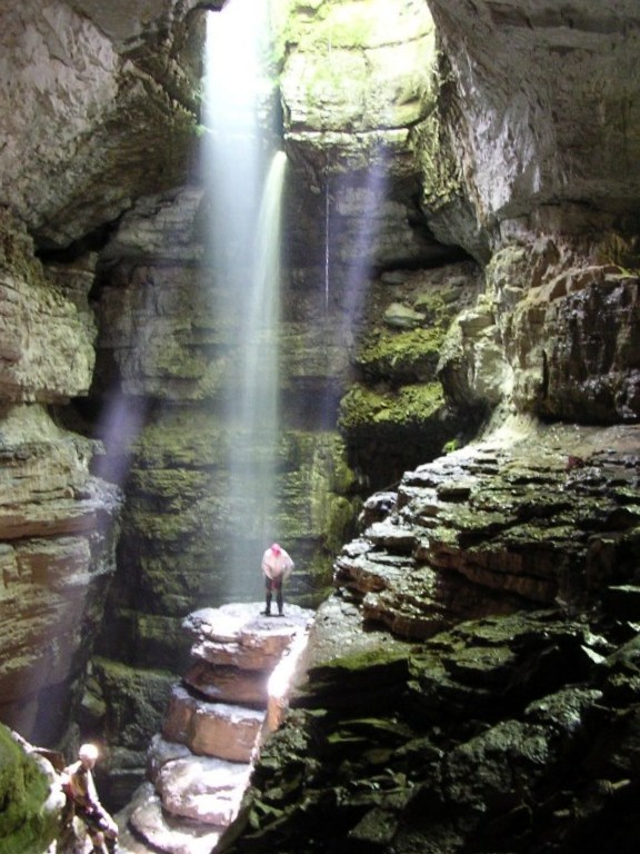 Interior of a cave in North Alabama (USA). Pictured are cavers James "Jorge" Roberts (center) and Lawrence Najjar (lower left).